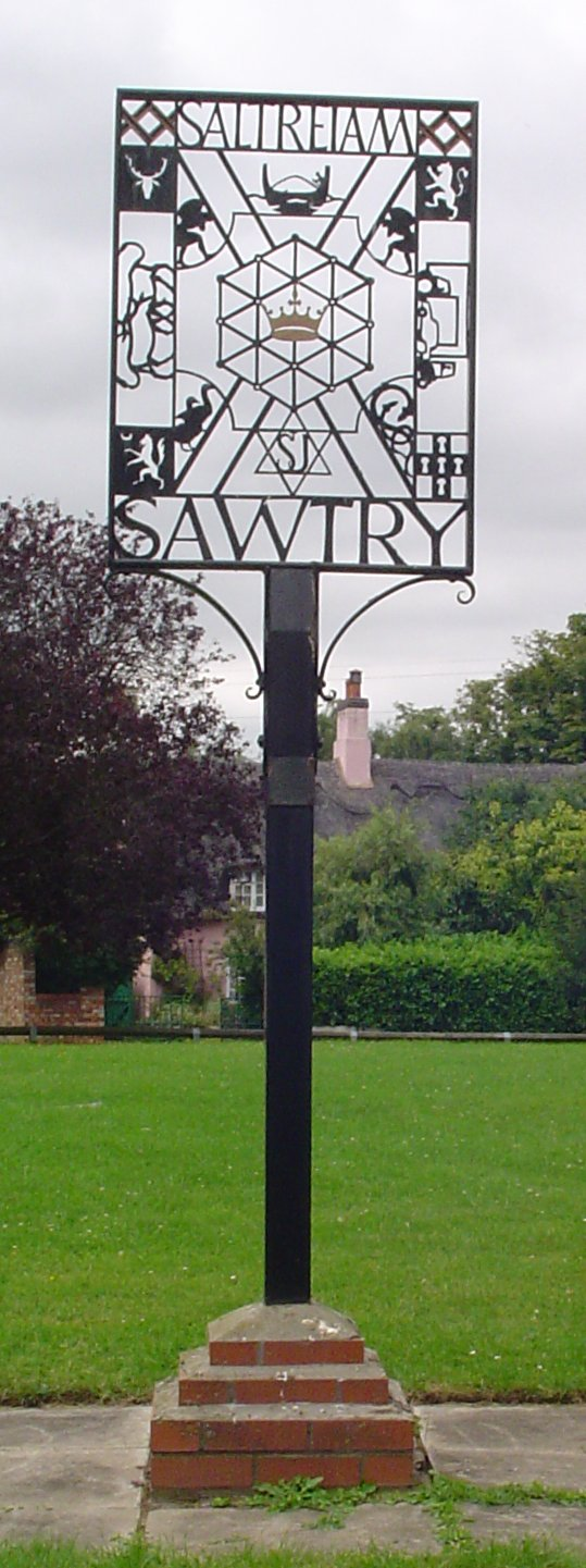 Signpost in Sawtry